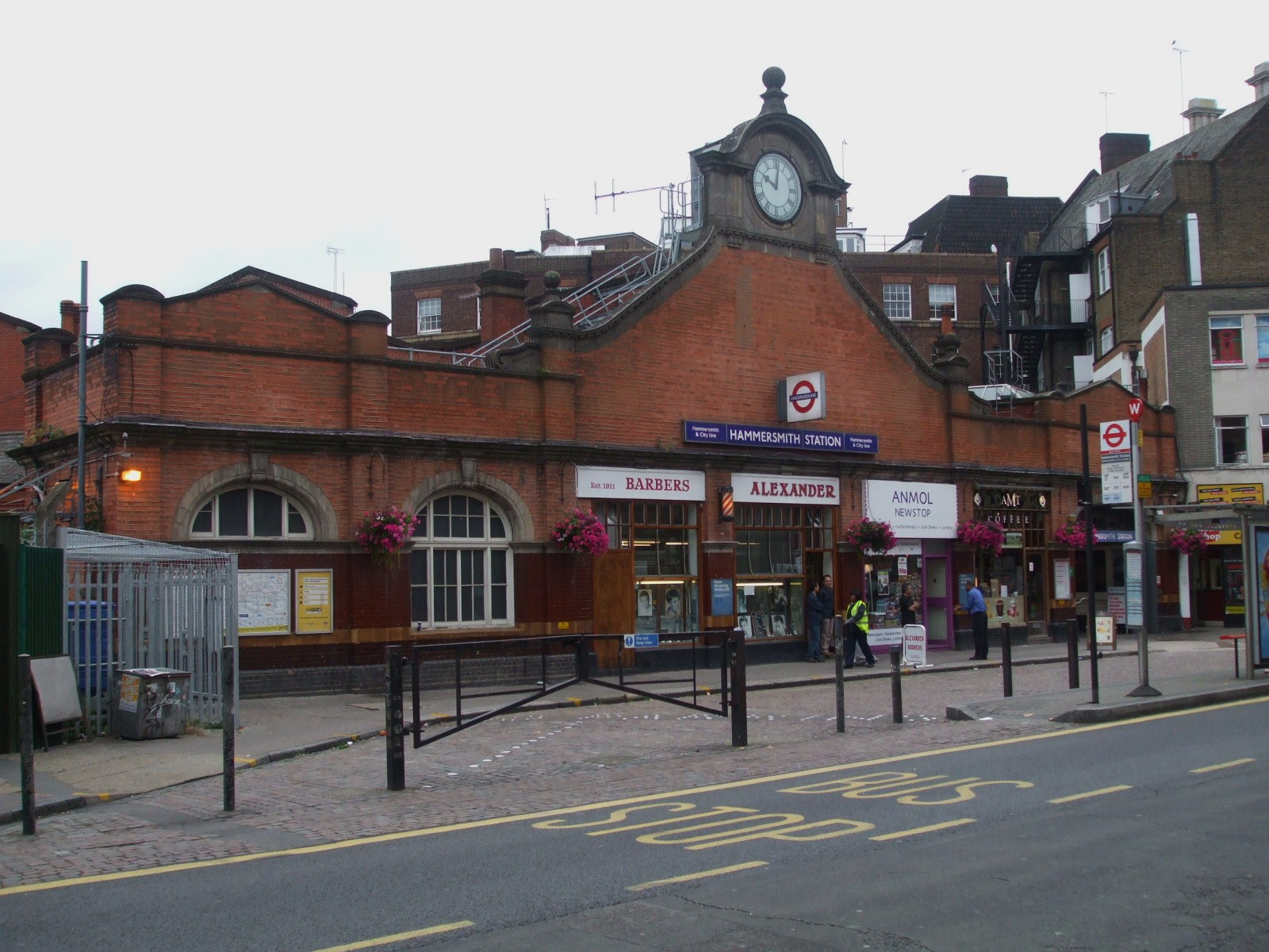 Hammersmith station on the Hammersmith & City line. Across the road from the District & Piccadilly line station.